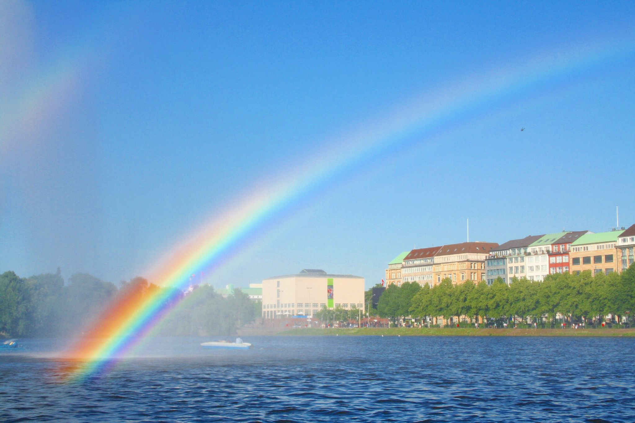 Rainbow at the Alster river in Hamburg, Germany. In the center of the picture: Hamburger KunsthalleIMG_1354a